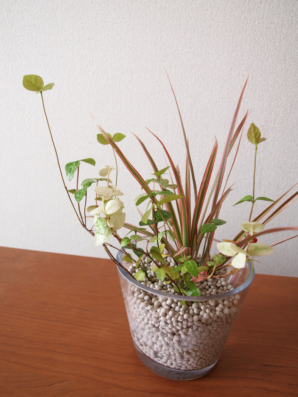 Asian jasmine (Trachelospermum asiaticum) and dragon tree (Dracaena marginata)